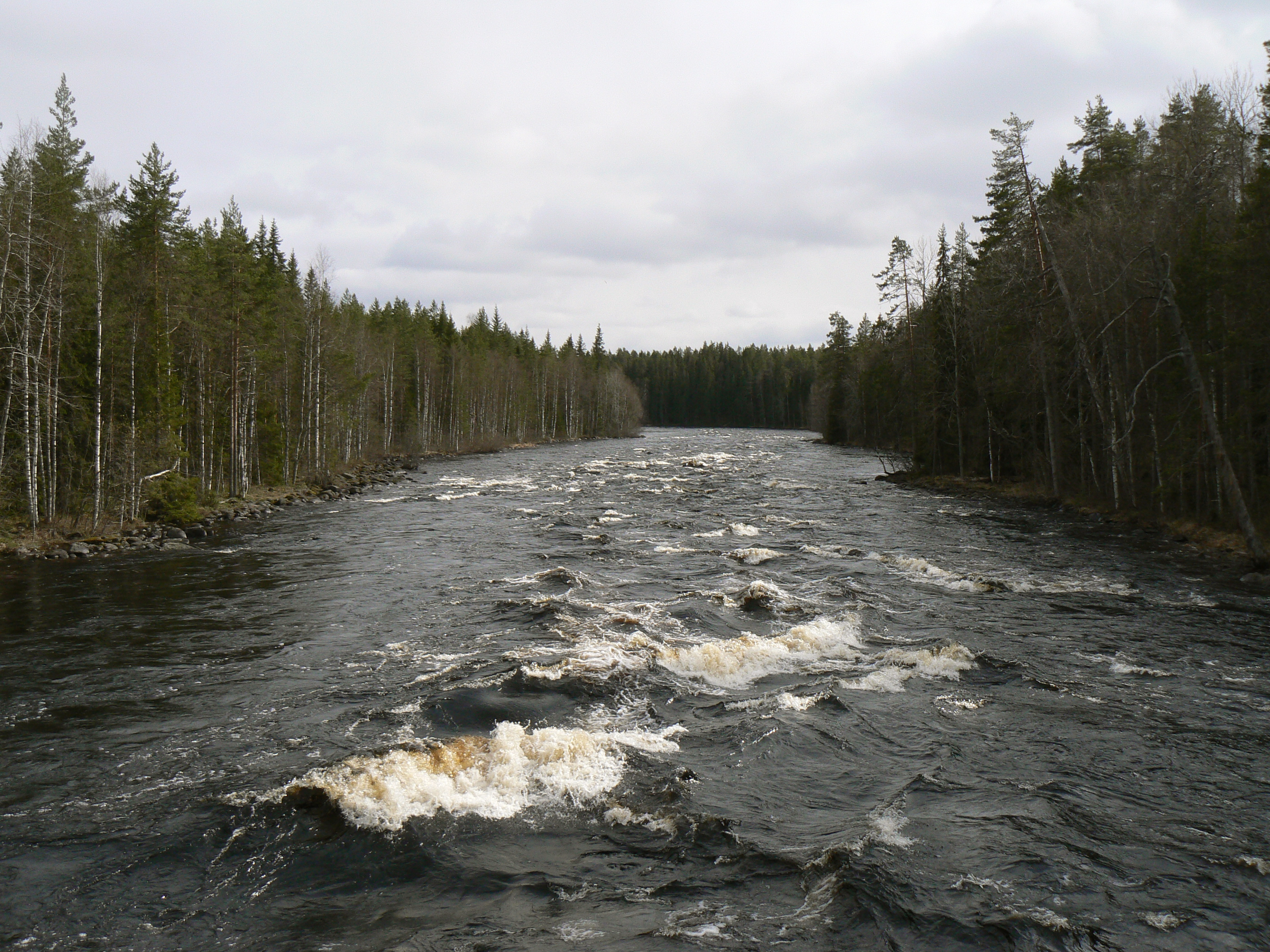 Lieksanjoki river as seen from the Haapavitja bridge, in the Ruunaa hiking area. Lieksa, Finland, May 2008.